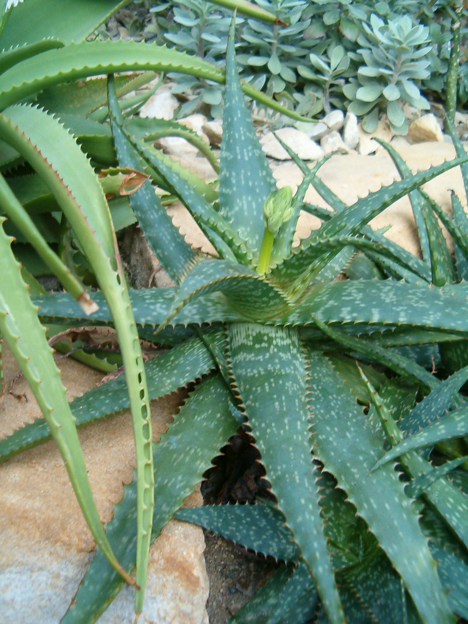 Location: Botanical Gardens Berlin Dahlem Xerophyt